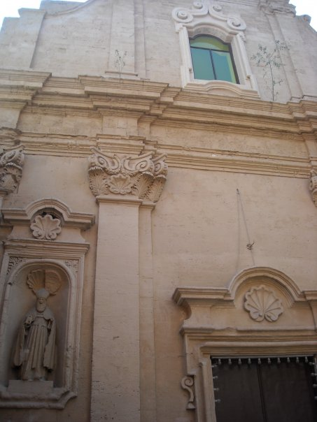 Church of St. Augustin Taranto